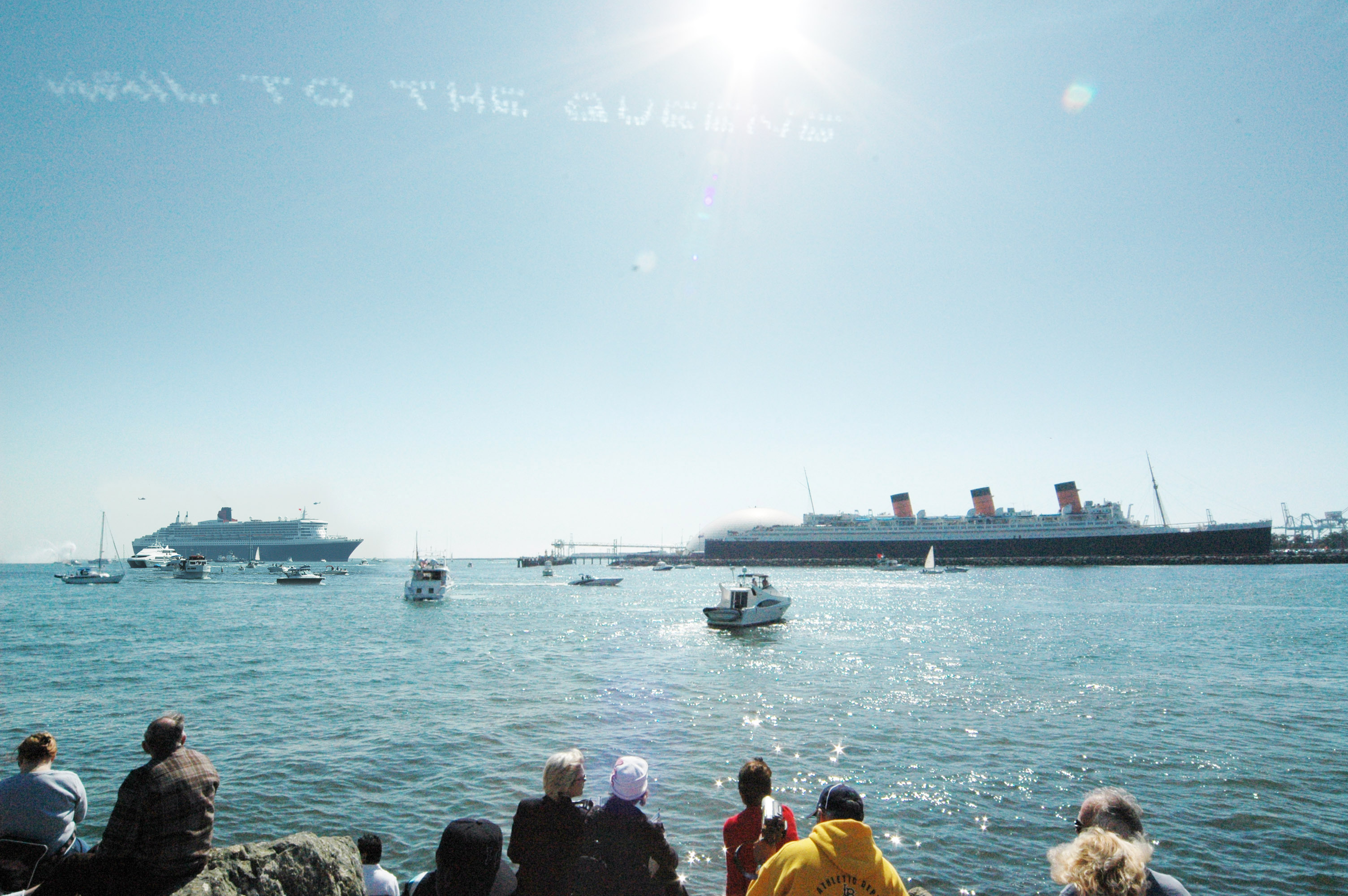 Photo of the Queen Mary 2 visiting the original Queen Mary.